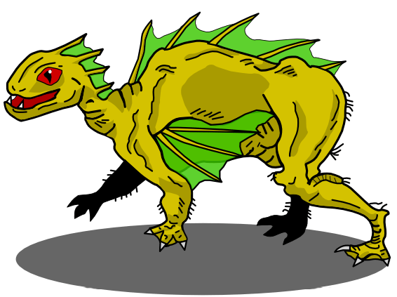 Color drawing of chupacabra.